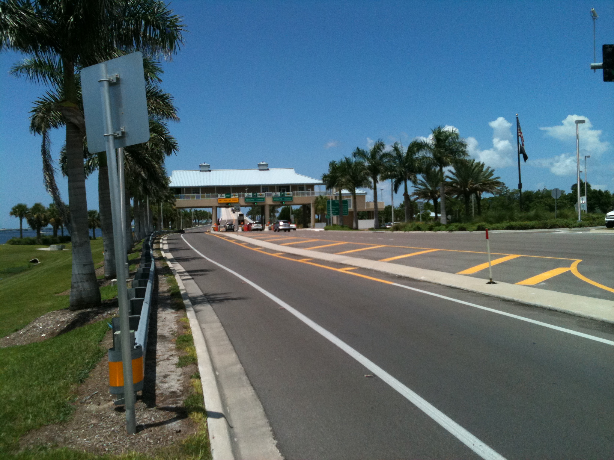 Sanibel Causeway Toll Plaza